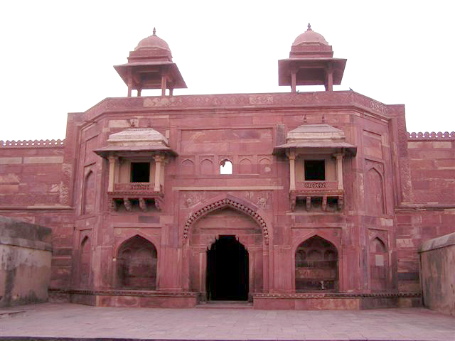 Entry to the harem of Fathepur Sikri, near Agra, India in 2005